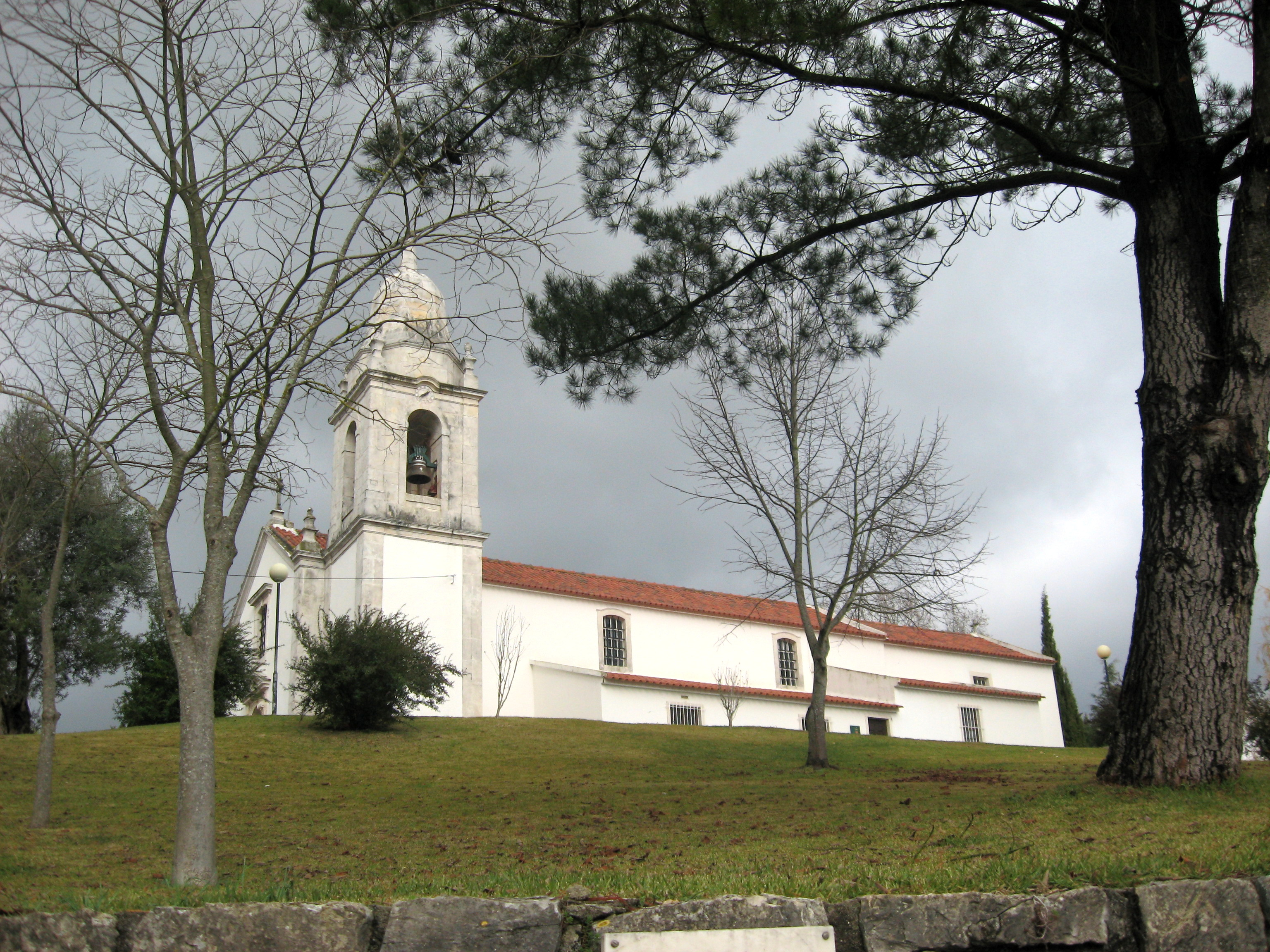 Alpedriz, Portugal, historical city belonging to the Military Order of Aviz, since 13th century until 1834, Igreja Nossa Senhora da Esperança, Baroque, but originally 15th/16th century